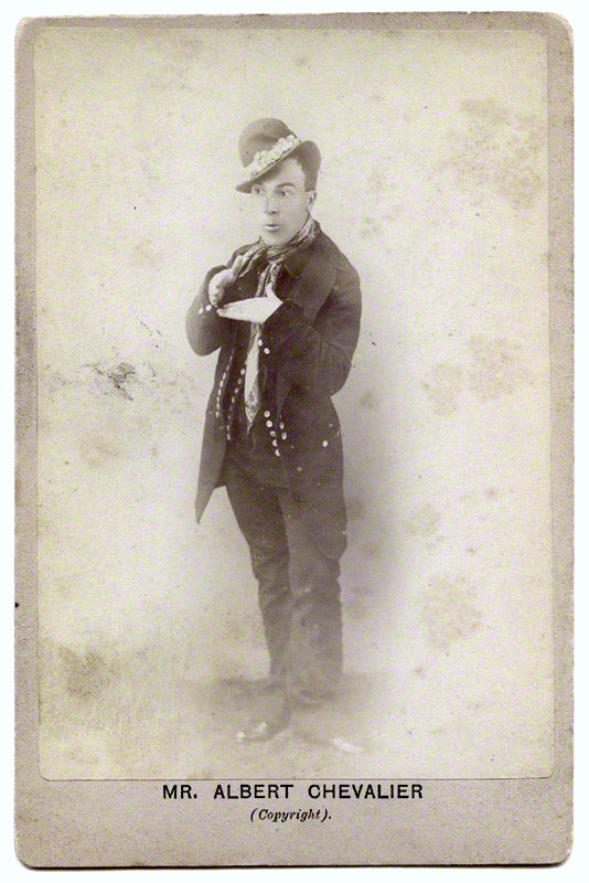 The English music hall comedian Albert Chevalier in costume as a cockney costermonger